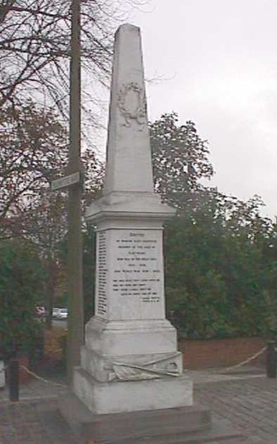 War memorial, Eastwood, Nottingham